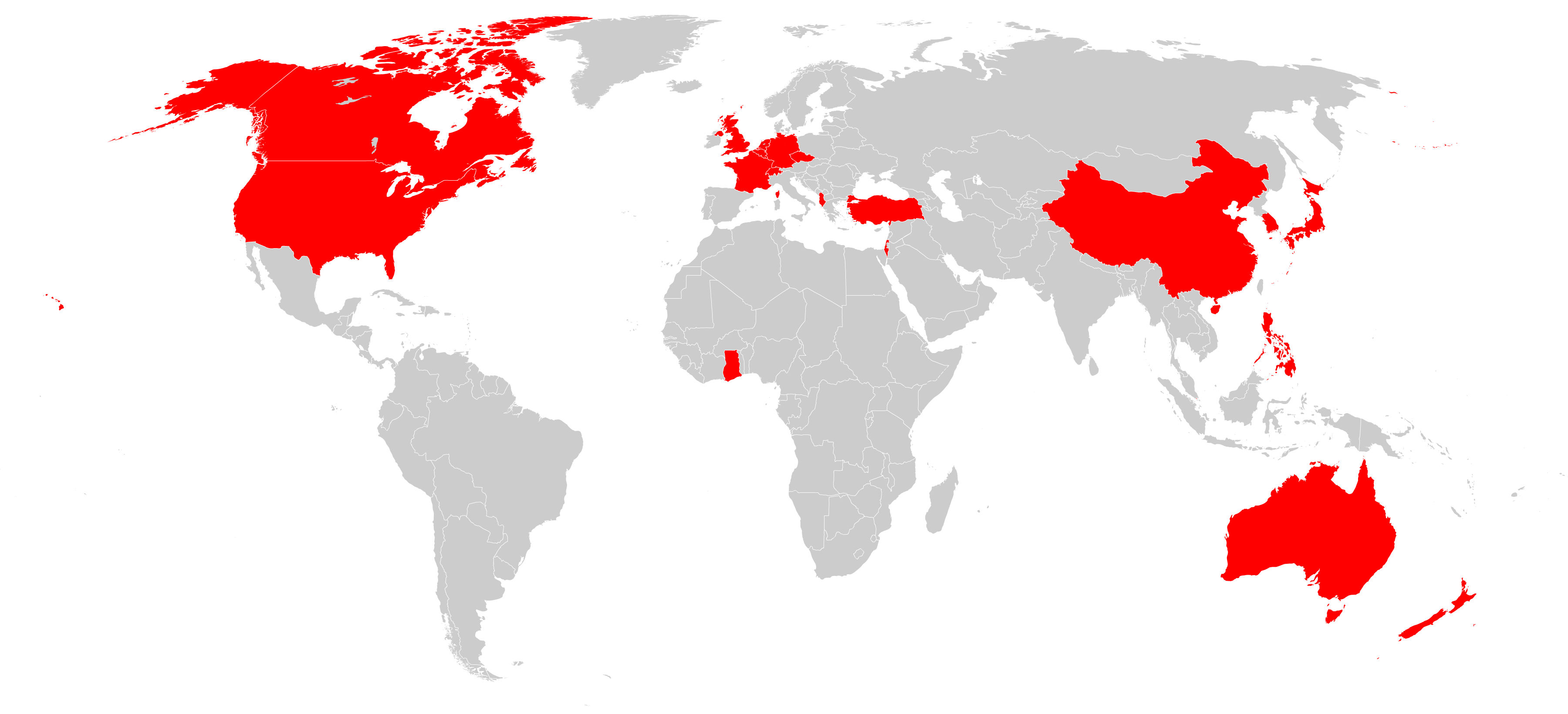 The 2015 official members of IACE